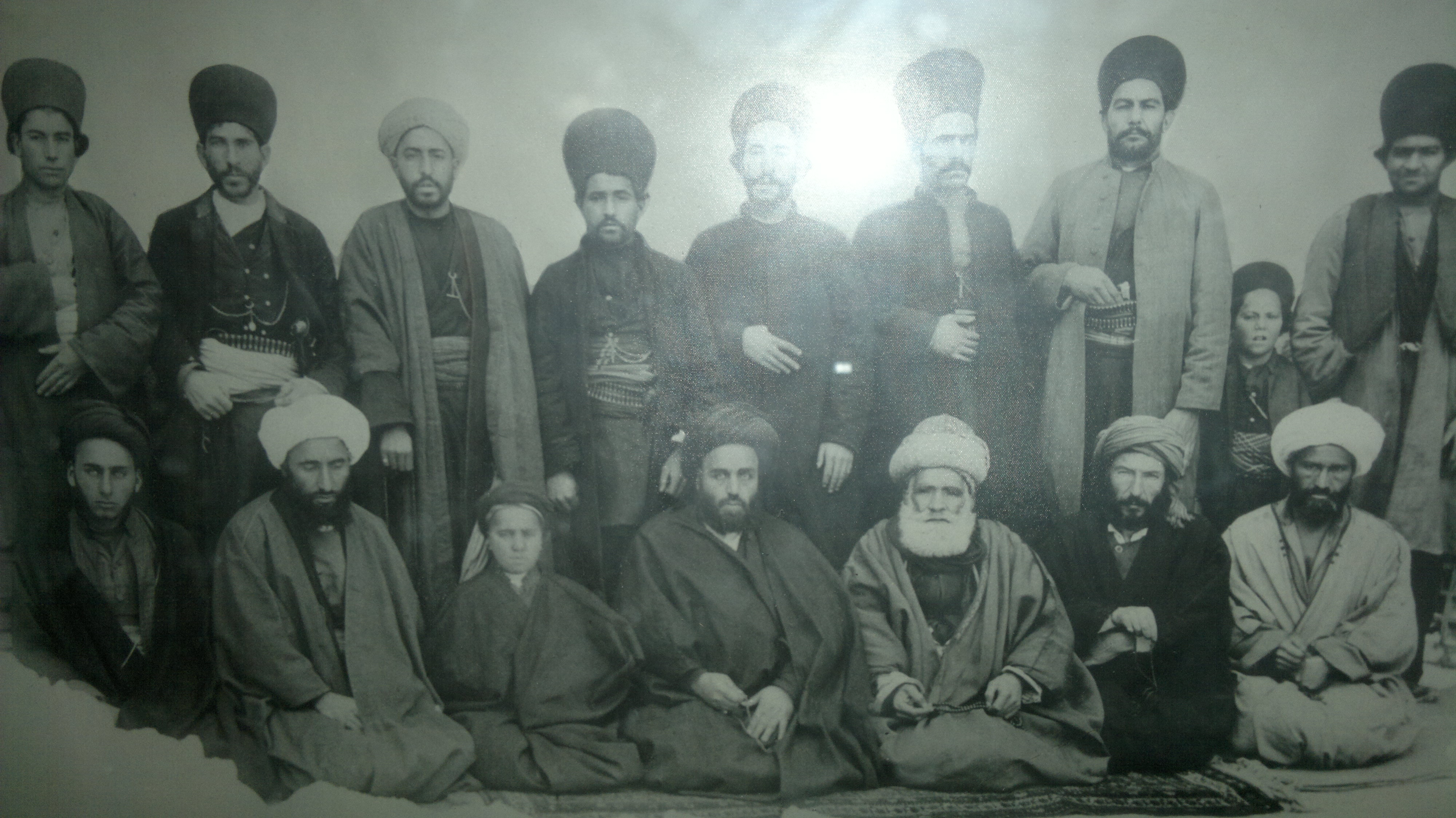 constitutionalists of Arak in Iran